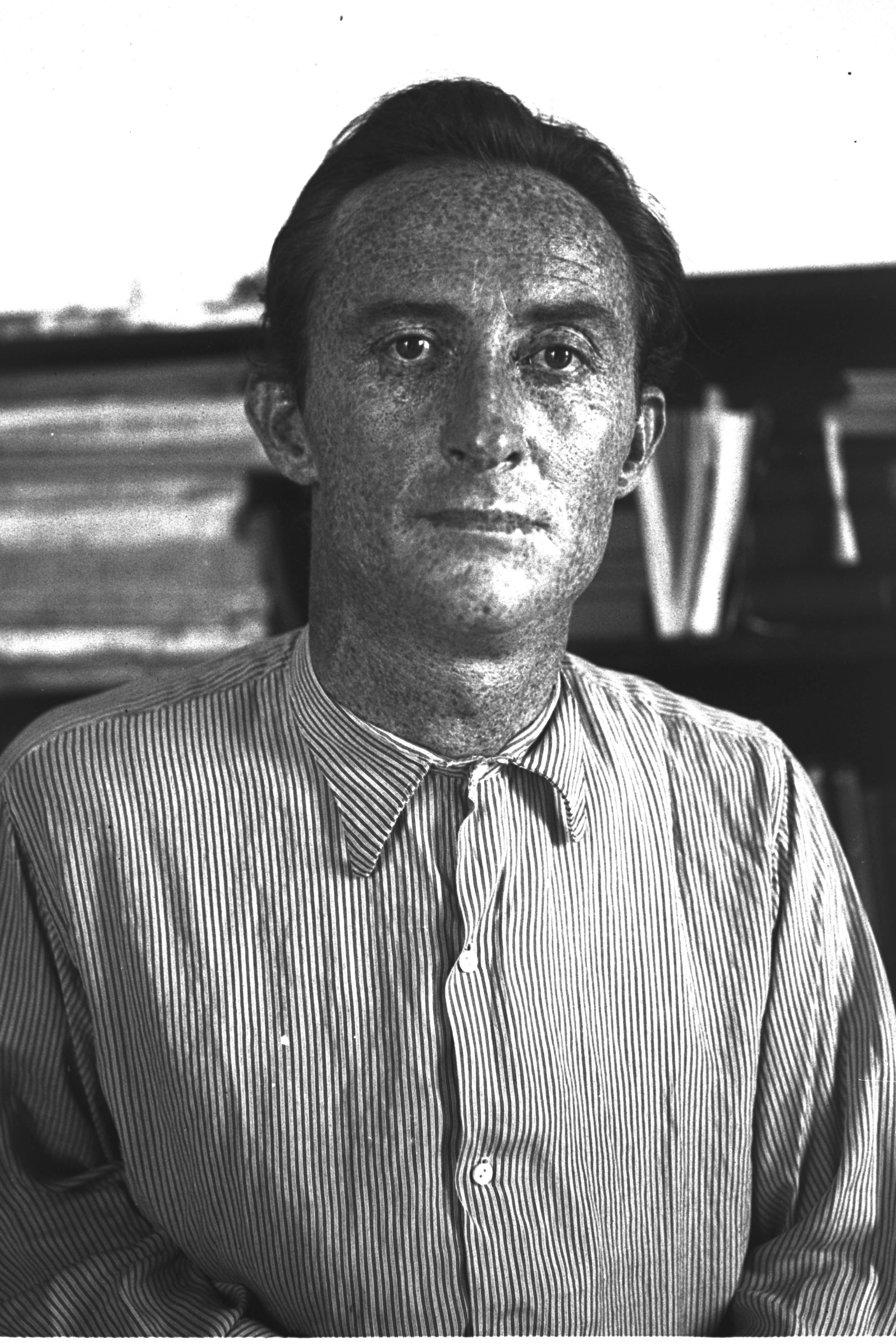 HEBREW POET AND WRITER URI ZVI GRINBERG. המשורר אורי צבי גרינברג.